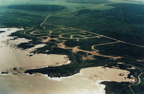 initial phases of the Jacobsbaai town development